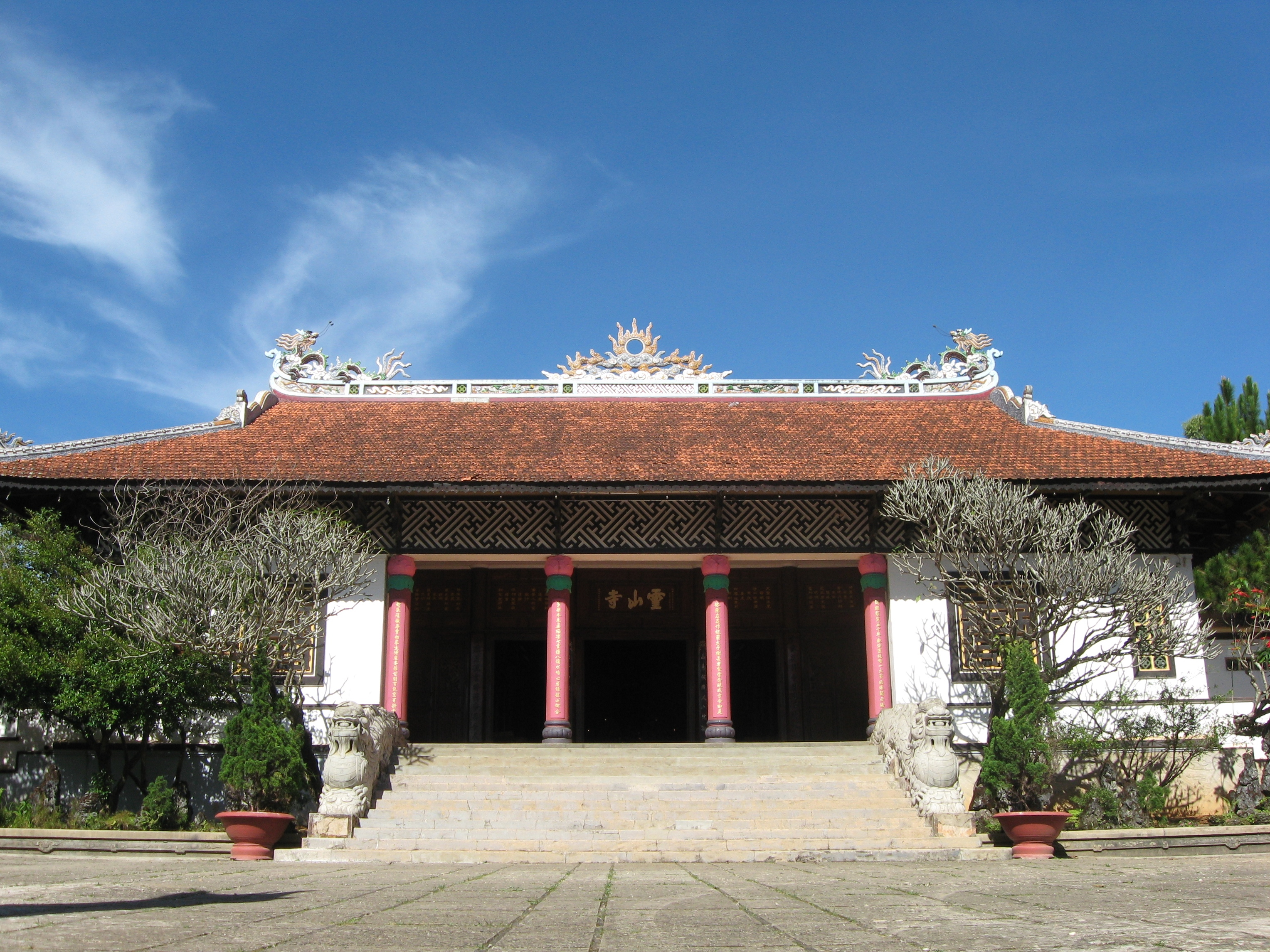 Linh Son Pagoda